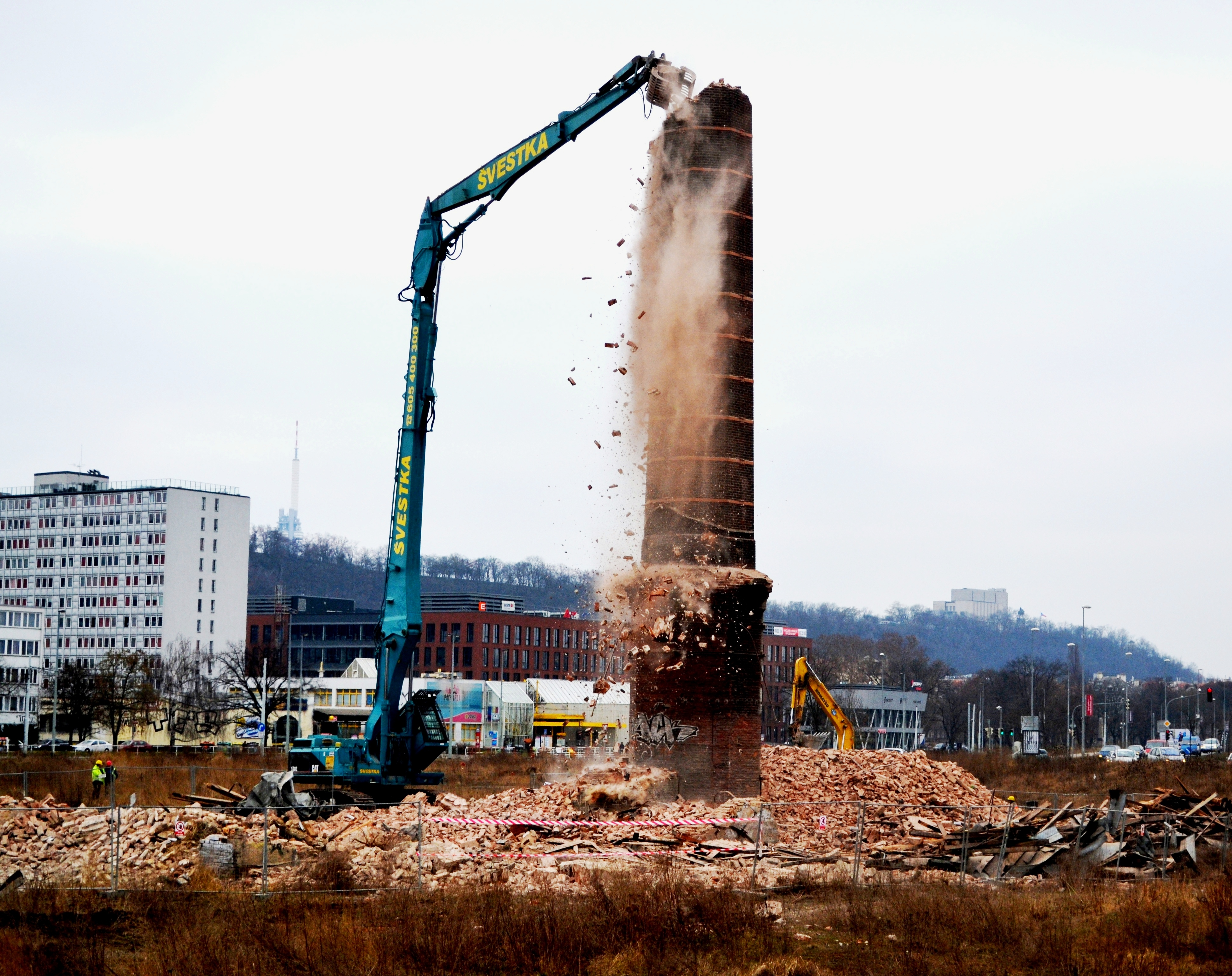 Demolition of the rests of former Rustonka works in Prague.